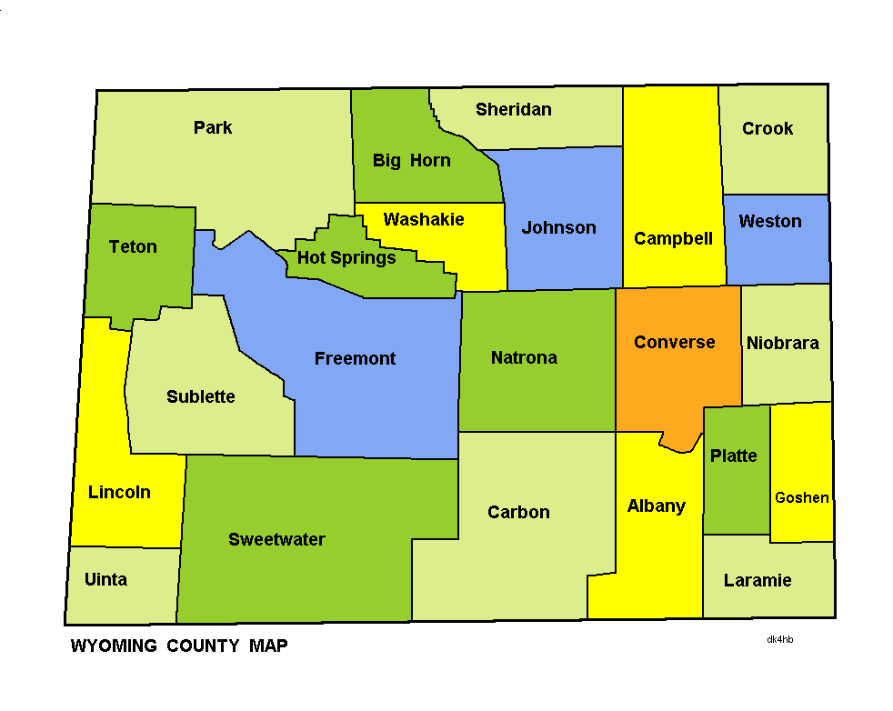 Wyoming County Map, selfmage graphic by R.Blauert(dk4hb)